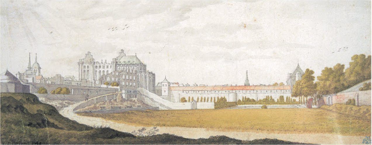 View of the burnt-down Koudenberg Palace in 1734 (Museum of the City of Brussels, inv. L-1900-67)